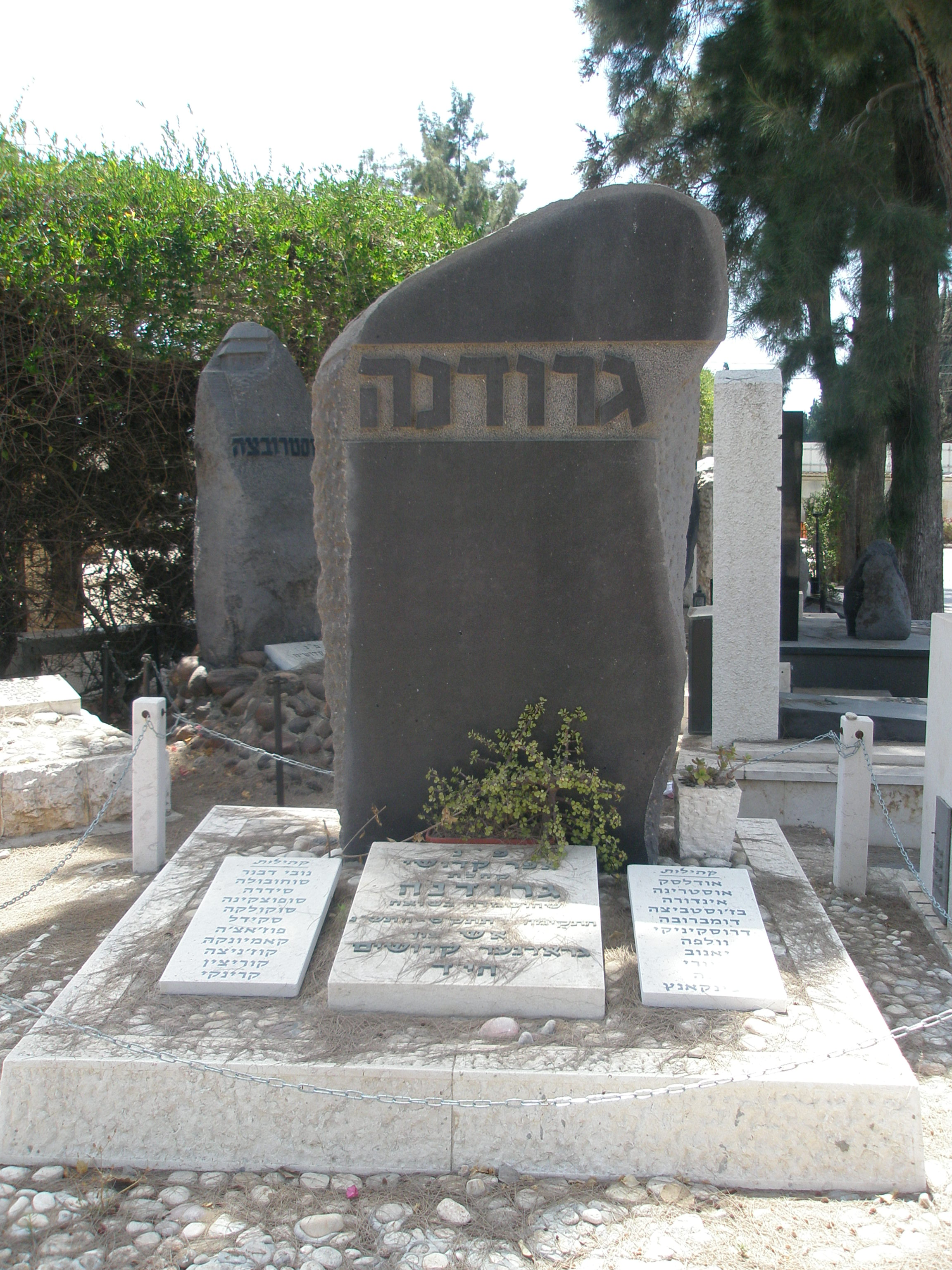 Grodno Jewery memorial at Kiriat Shaul cemetery